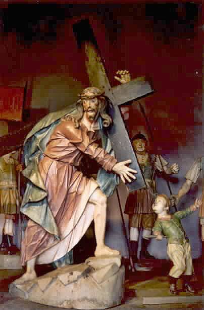 Christ bearing the cross, by Aleijadinho. Congonhas do Campo, Minas Gerais, Brazil